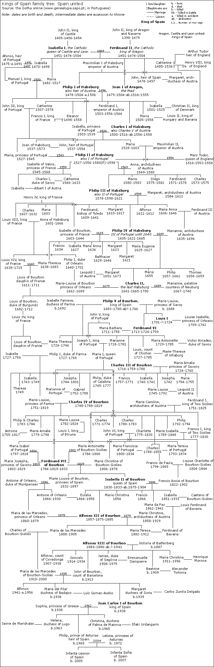 Kings of Spain (united) family tree.